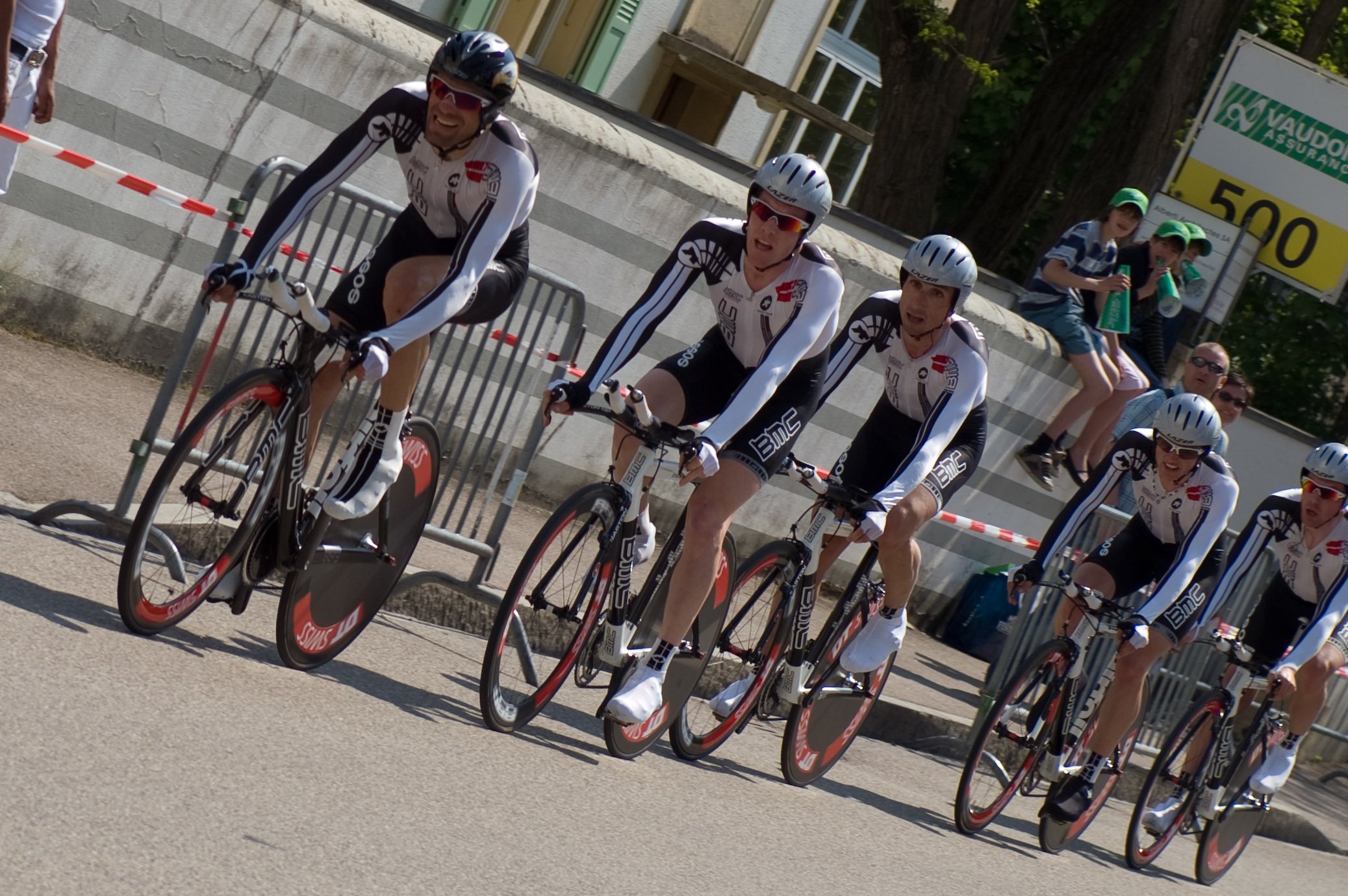 Tour de Romandie 2009 - 3rd stage - team time trial